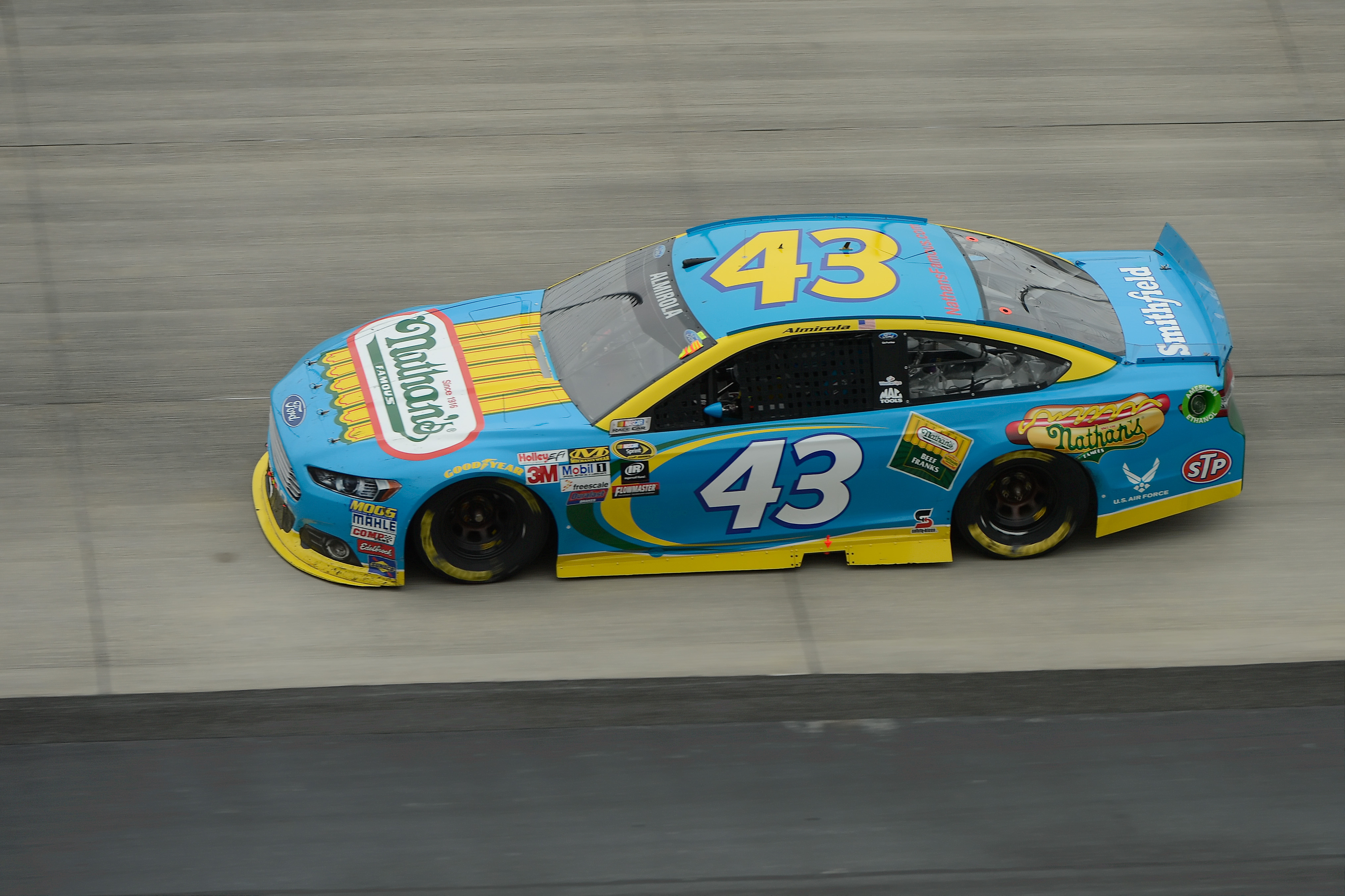 Aric Almirola races on the track of the Dover International Speedway in the Smithfield Foods Ford Fusion during the 2015 AAA 400 NASCAR Sprint Cup Series race on Oct. 4, 2015. Secretary of the Air Force Deborah Lee James joined the #43 pit crew along pit road after she opened the race as the official pace car driver during her visit. (U.S. Air Force photo/Greg L. Davis)